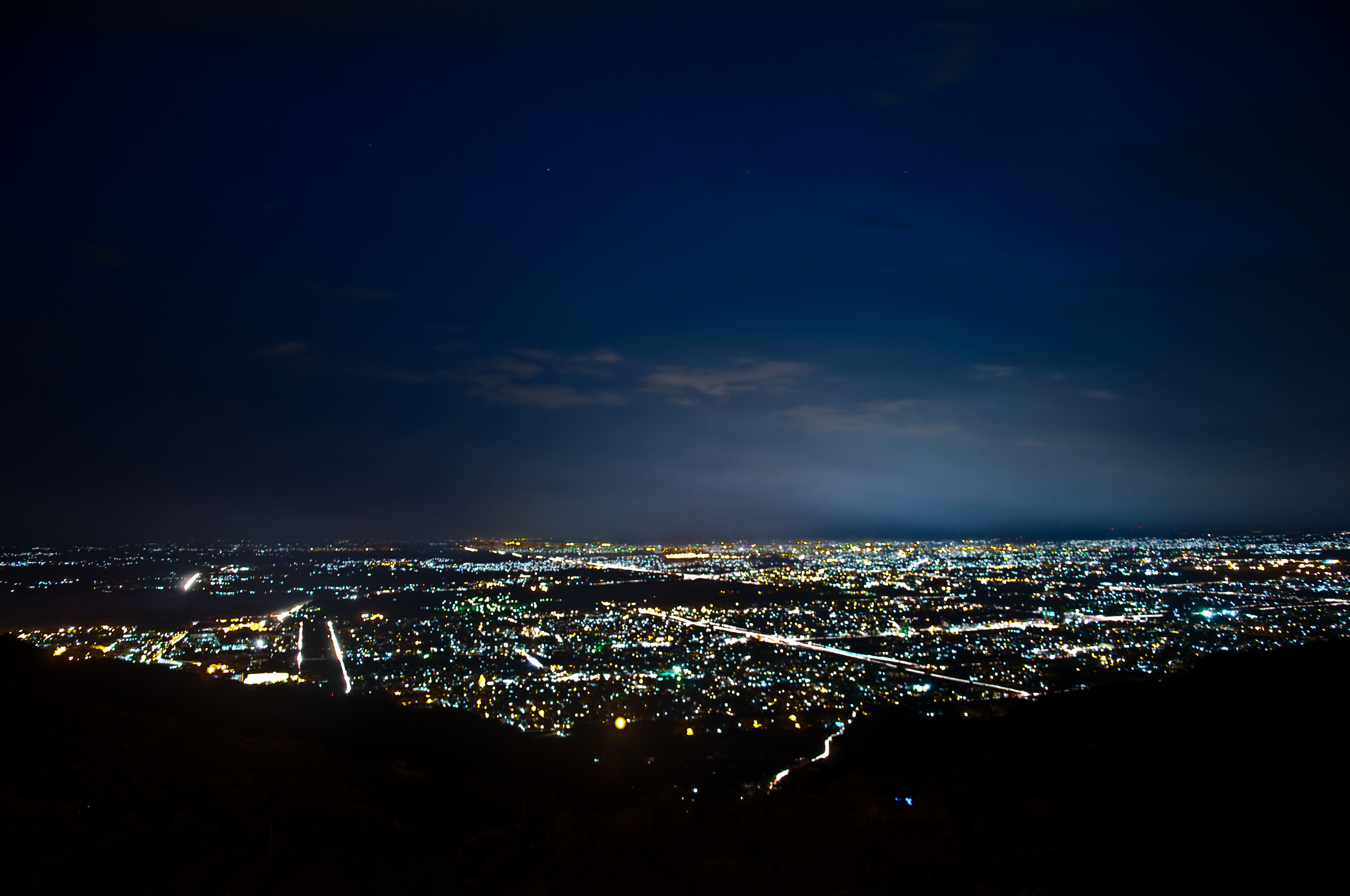 Cityscape of Islamabad from a hill at night.